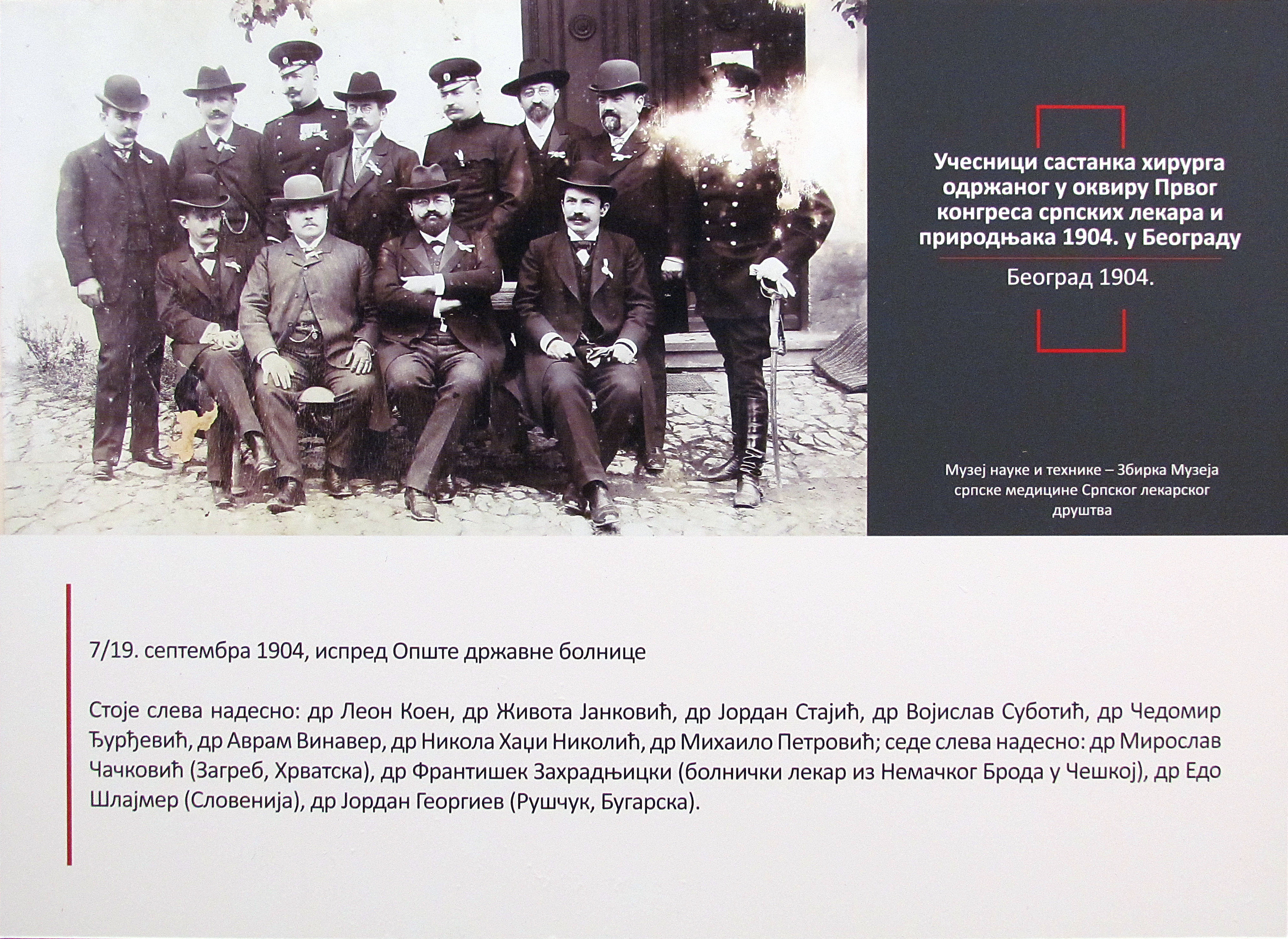 The First Congress of Physicians and Naturalists in the Kingdom of Serbia, Museum of Science and Technology, Belgrade